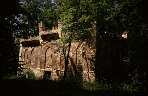 Gaujiena old castle